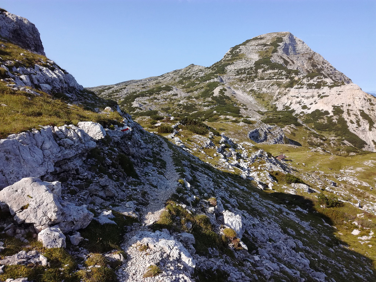 mount Cima XII, Asiago plateau